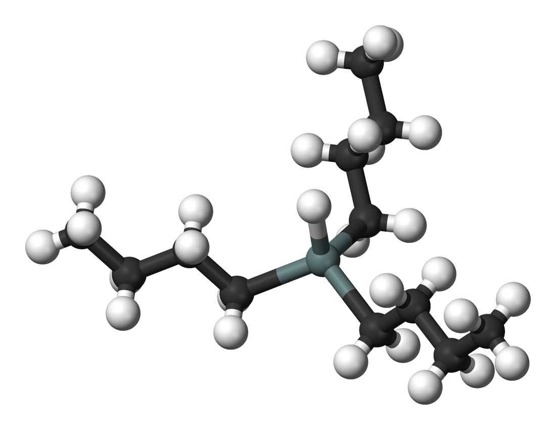 Tributyltin hydride 3D balls